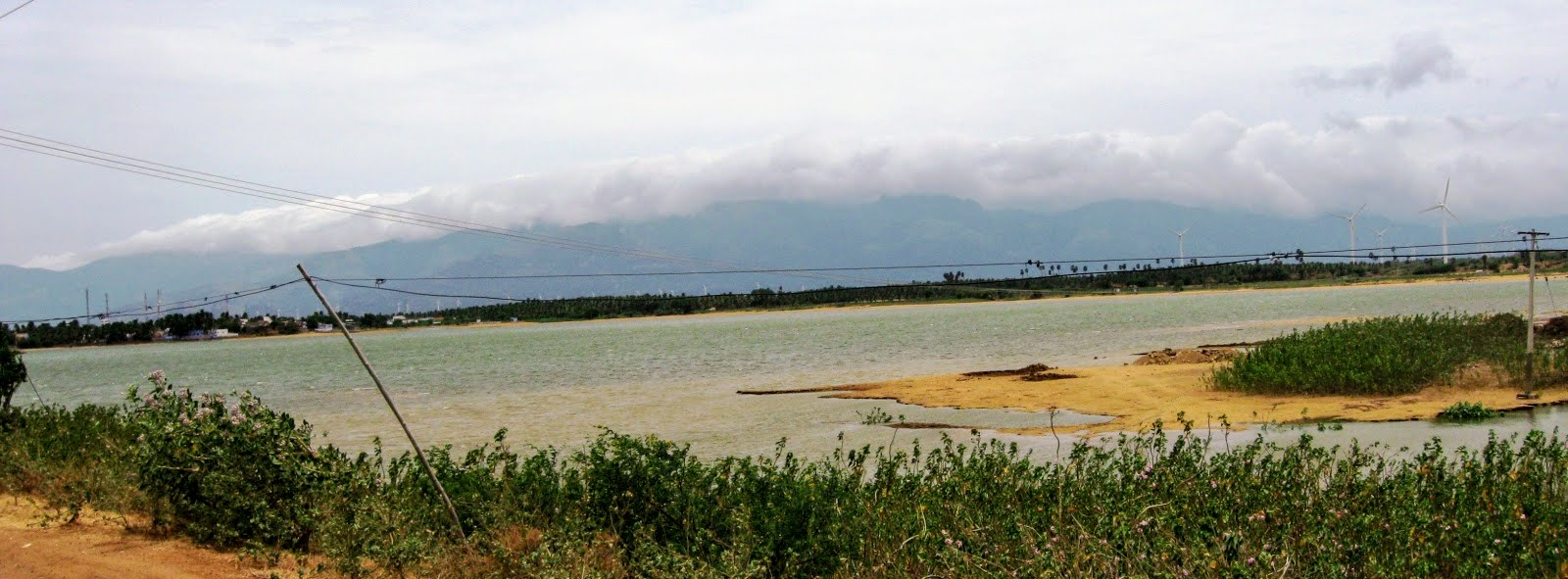 Beautiful lake of the town Sundarapandiapuram